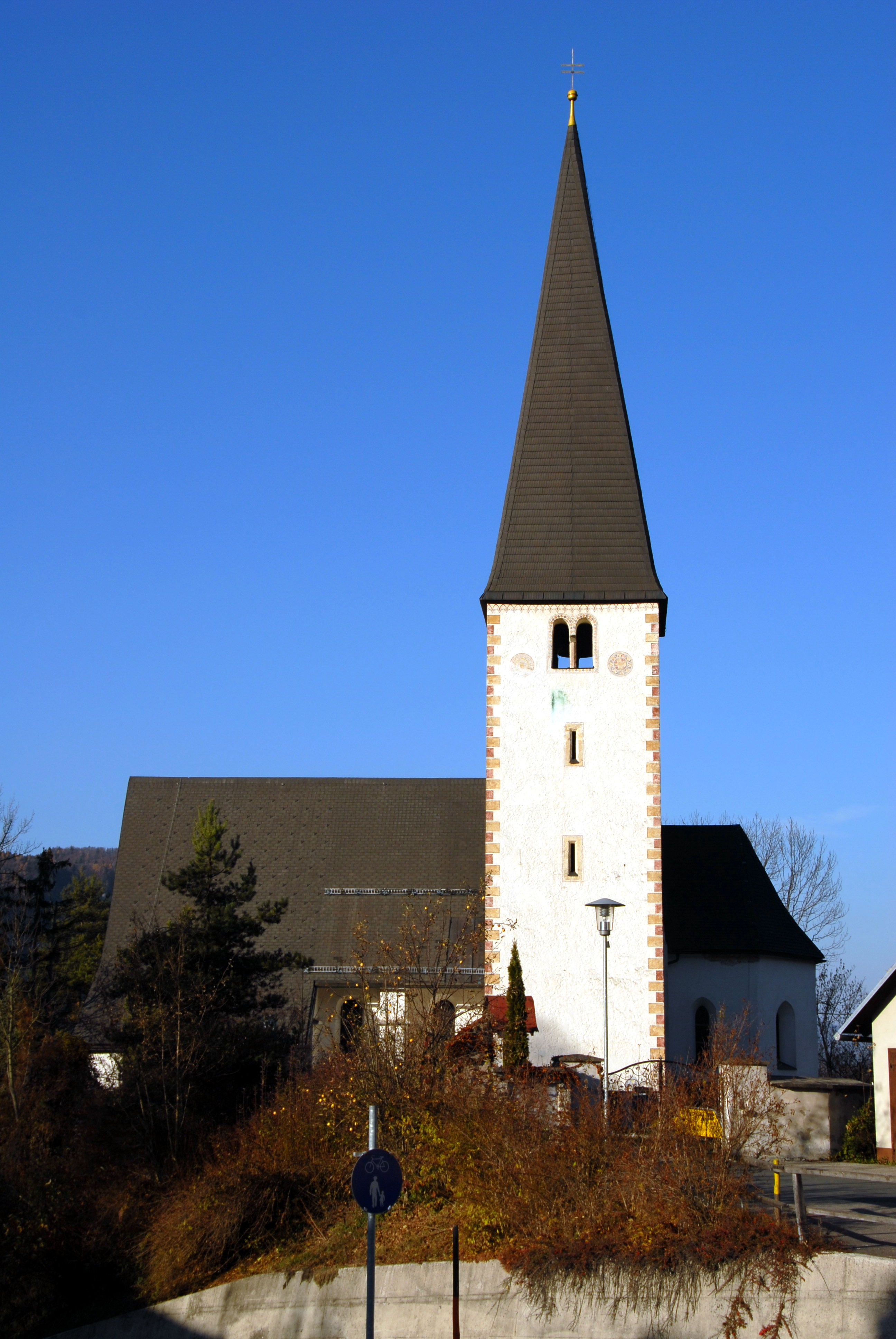 Parish church Saint James the Greater in Gallizien, municipality Gallizien, district Voelkermarkt, Carinthia, Austria